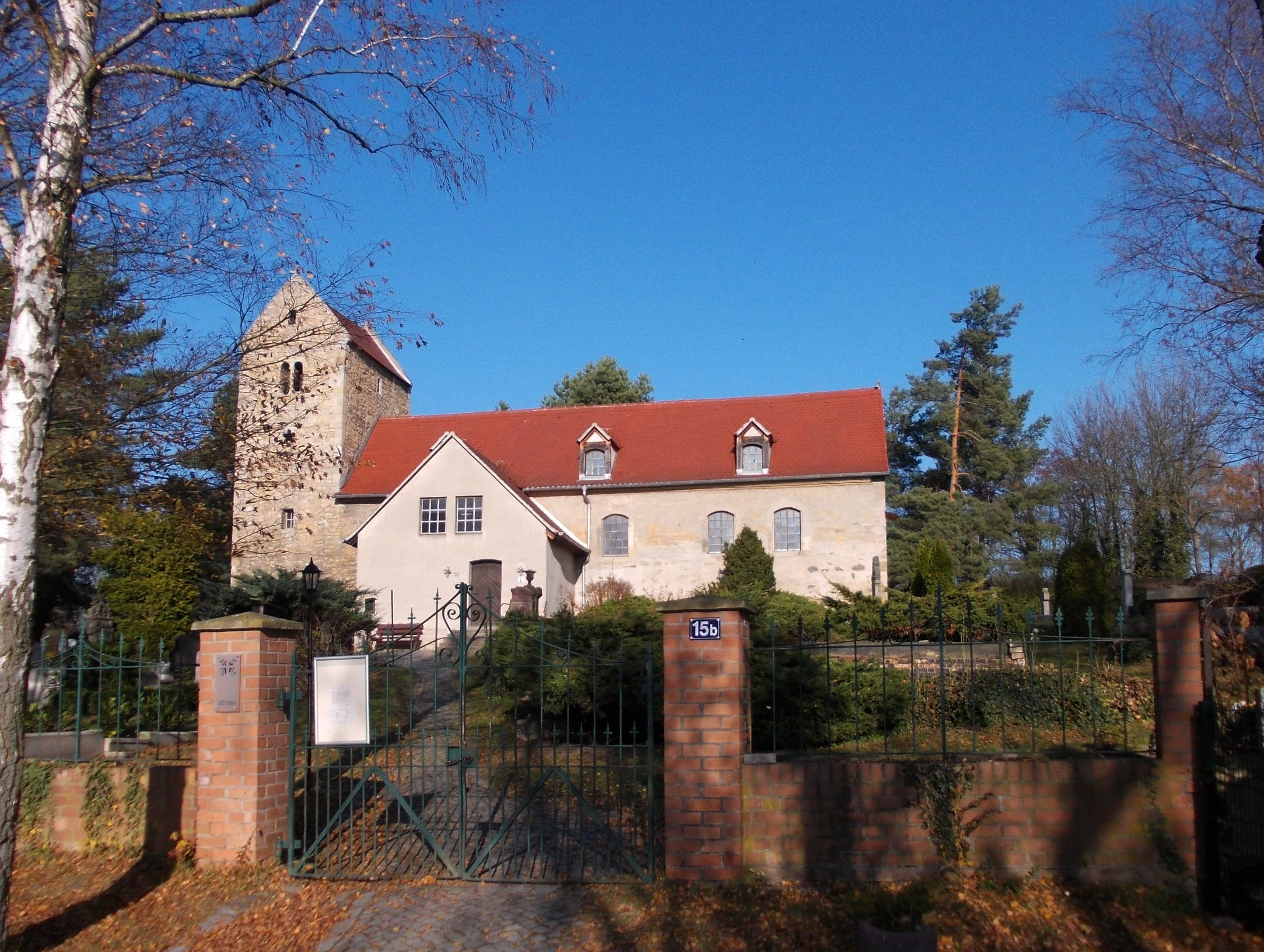 St. Nicholas and Anthony Church in Dölau (Halle/Saale, Saxony-Anhalt)